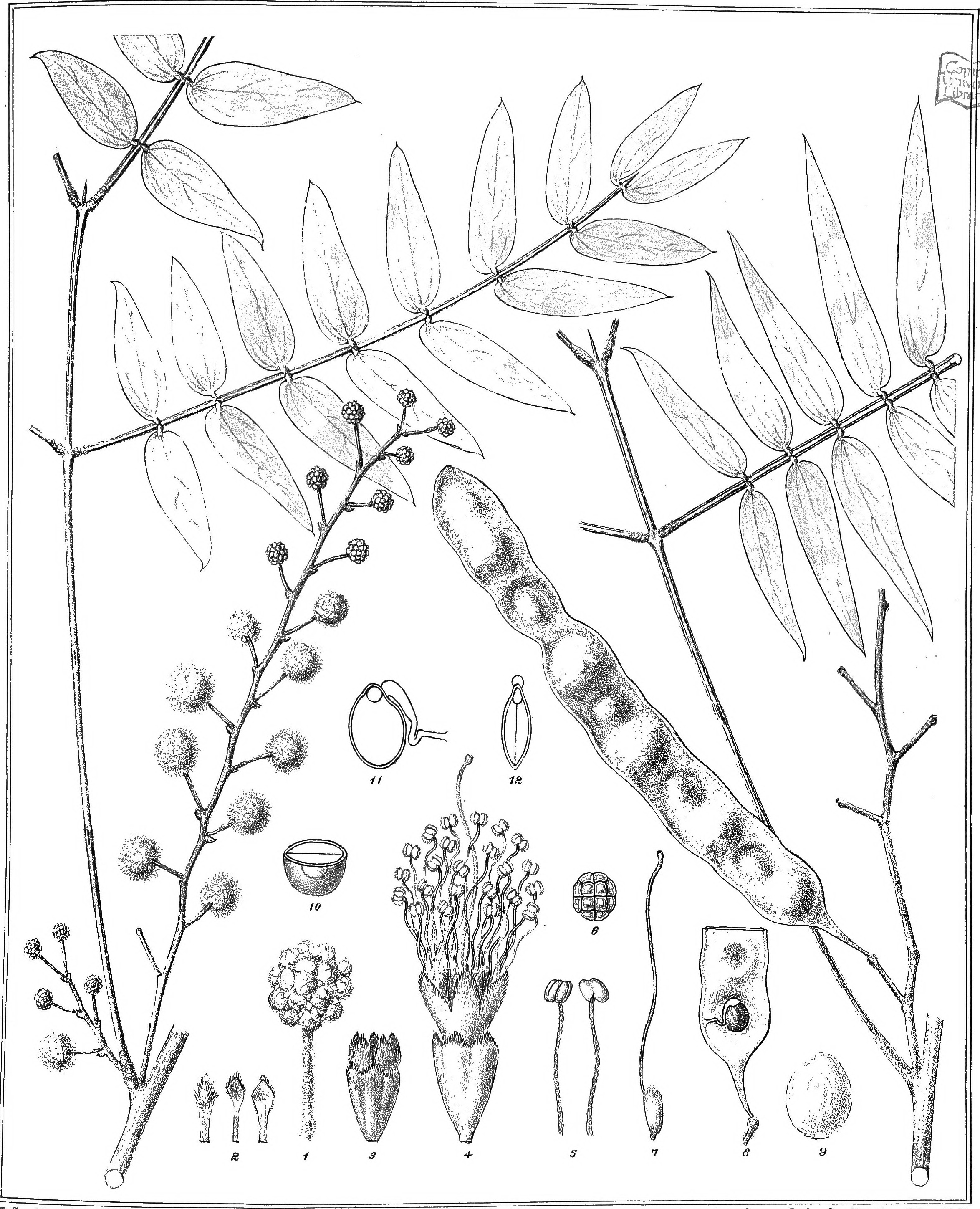 Title: Iconography of Australian species of Acacia and cognate genera Year: 1887 (1880s) Authors: Mueller, Ferdinand von, 1825-1896 Subjects: Acacia; Botany Publisher: Melbourne, J. Ferres, Govt. Printer Text Appearing Before Image: ' Text Appearing After Image: R Graff del, C.TVoedel & C'Lilh. Fv:M. direxil. Steam Litho, Gov Prinling Office, Melb. Mmm ©Mao AMMMM